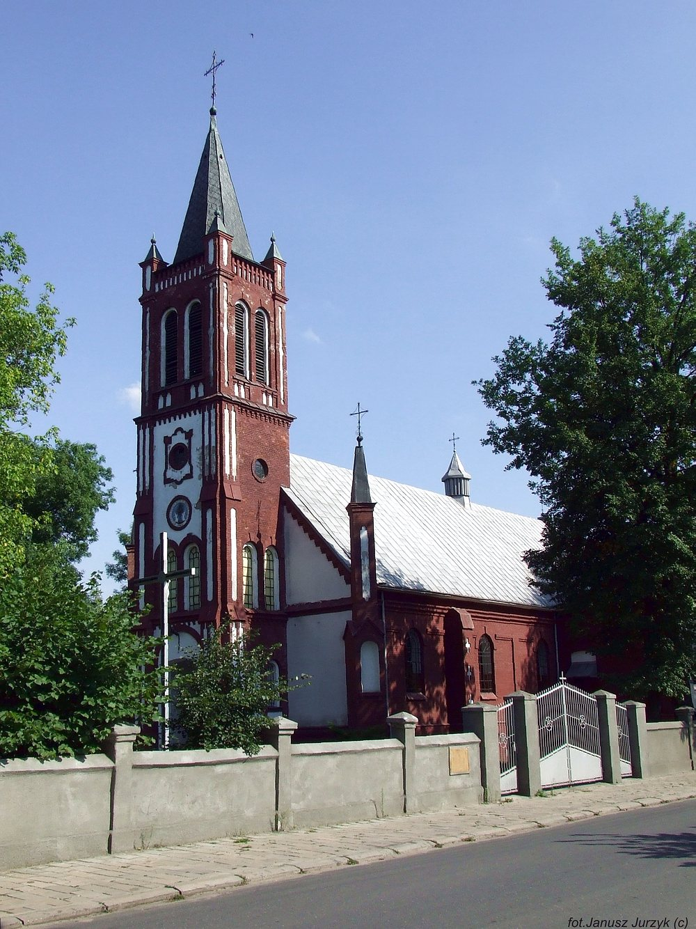 Mariavite church in Cegłów, Poland